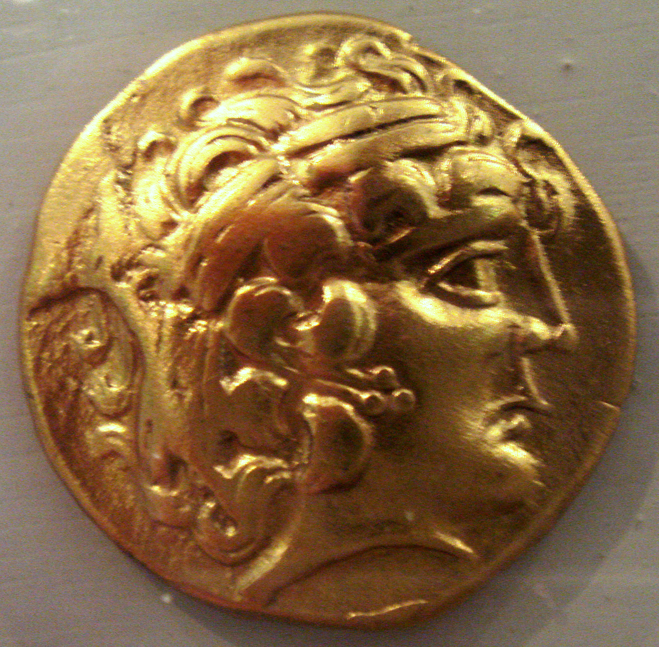 Cenomani_gold_coin_5_to_1st_century_BCE_French_Gaul